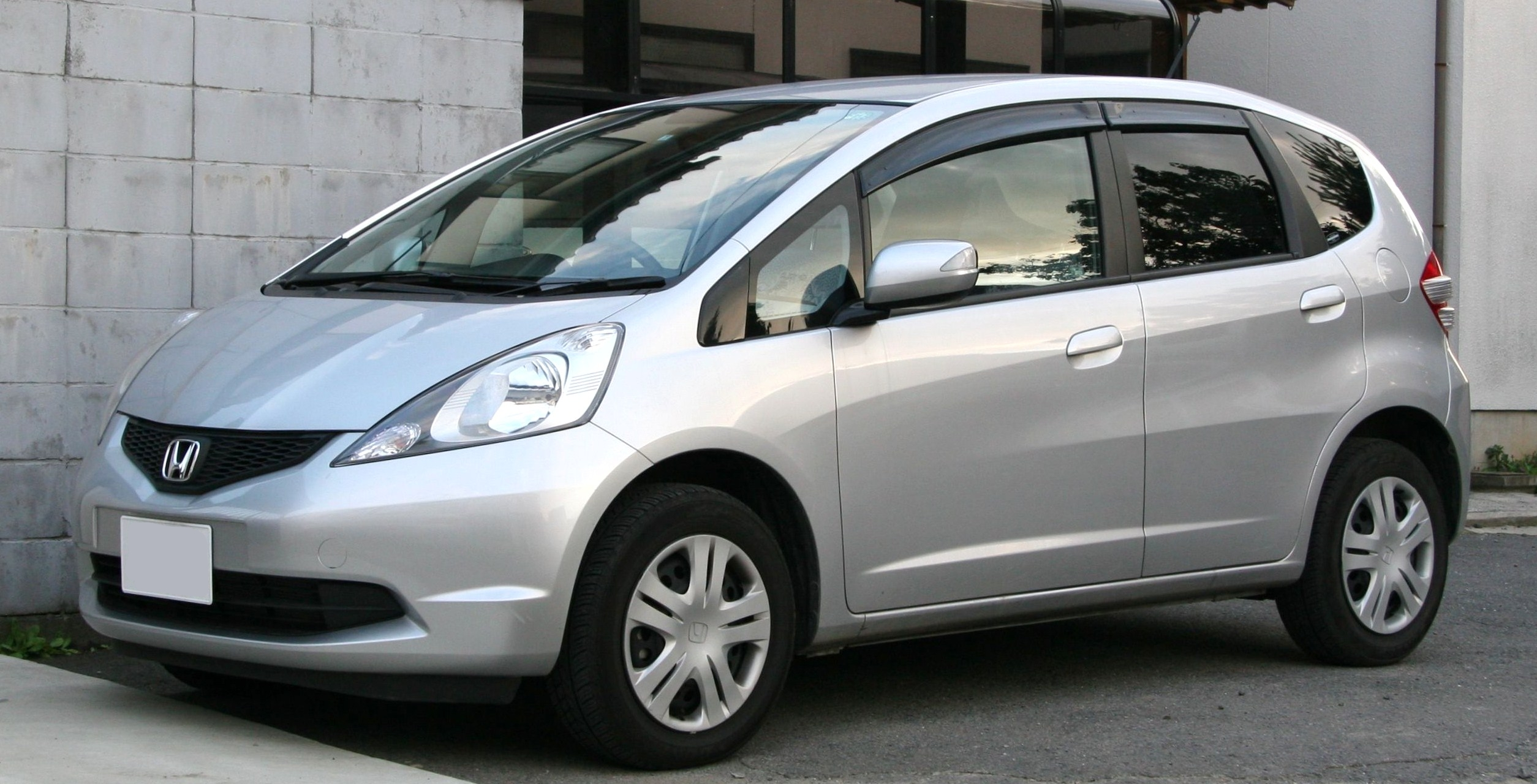 Honda Fit